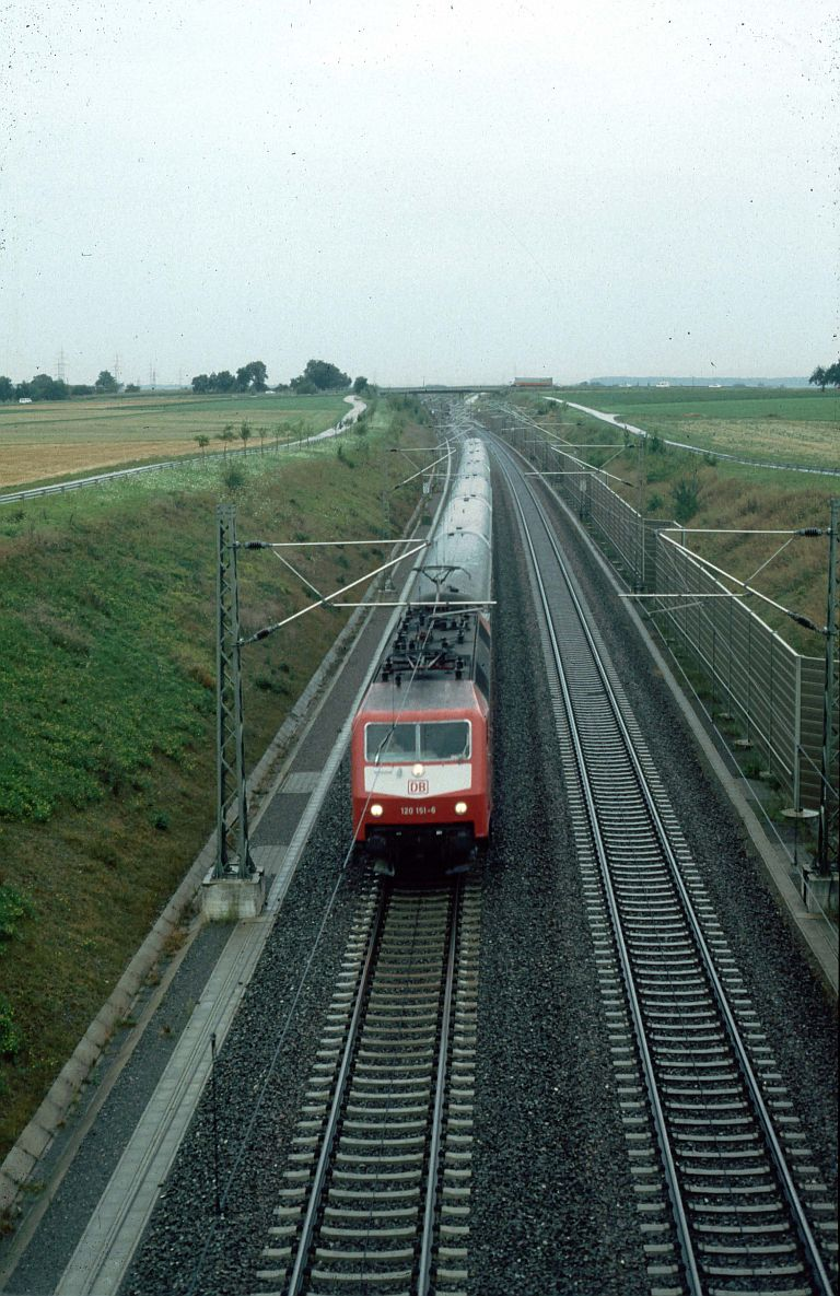 DB AG electric locomotive of class 120, no. 151 on High-speed rail tracks between Mannheim and Stuttgart near Kornwestheim